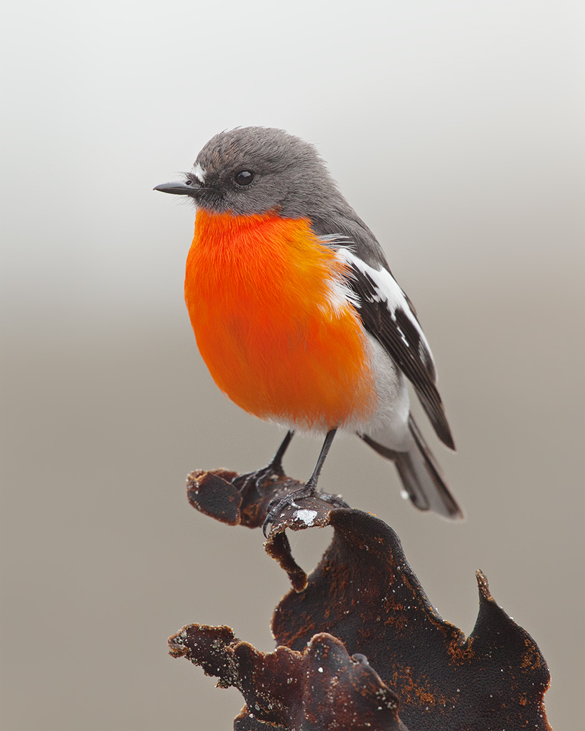 Flame Robin (Petroica phoenicea), Eaglehawk Neck, Tasmania. 4/09/2013